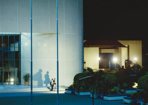 Night